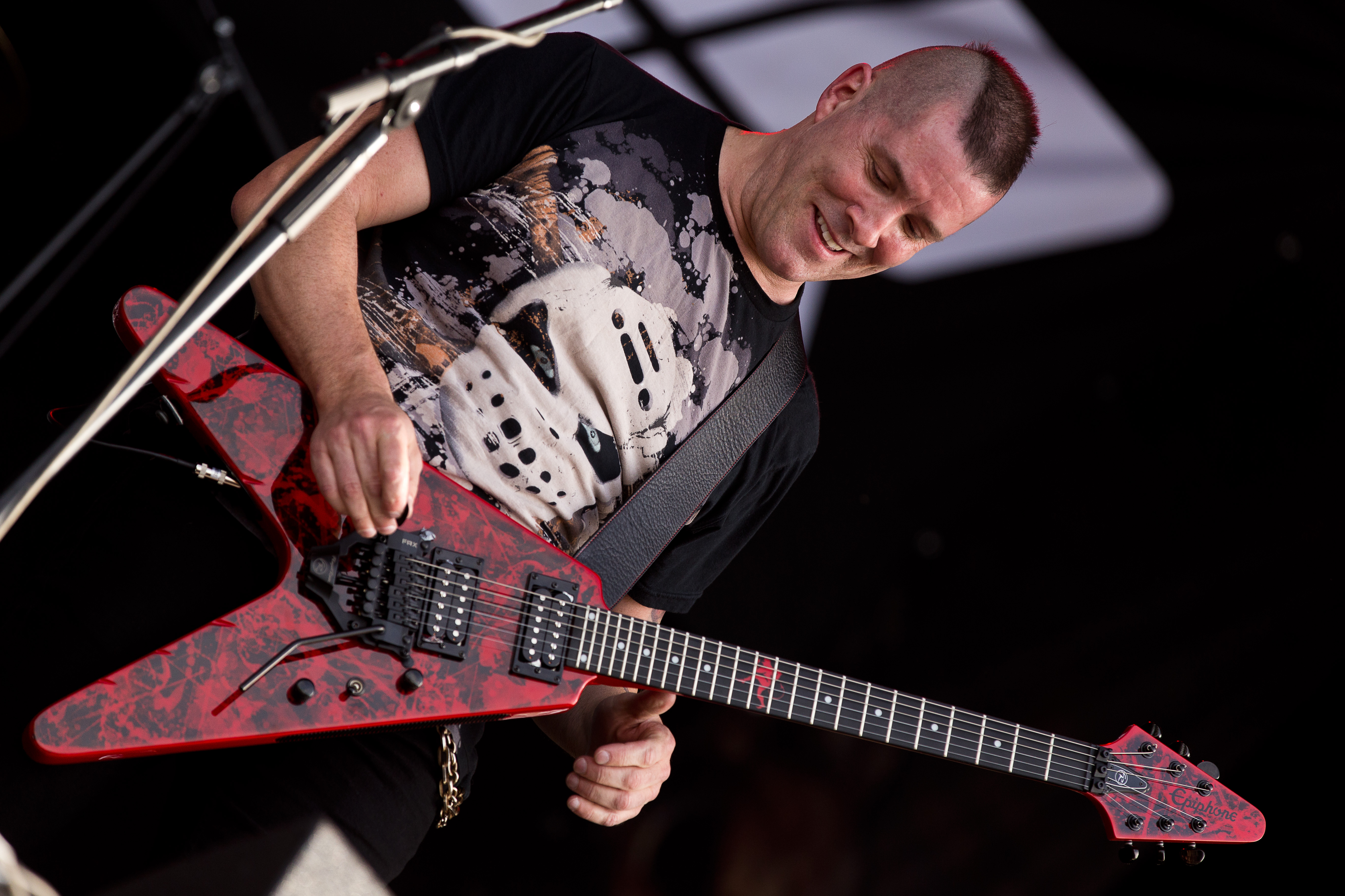 The Canadian thrash metal band Annihilator at the Rockharz Open Air 2016 in Ballenstedt/Germany.